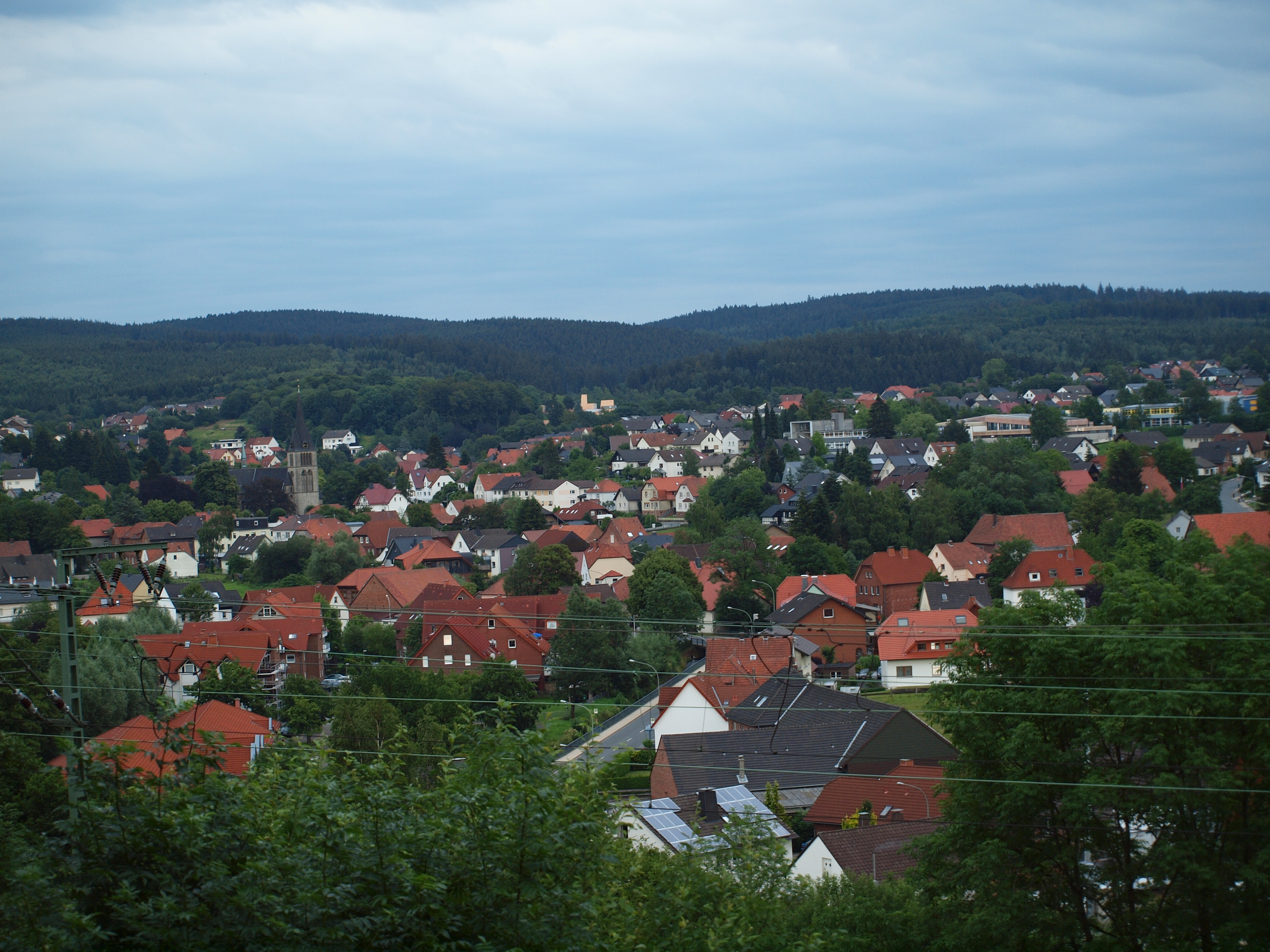 View from the lookout over Altenbeken